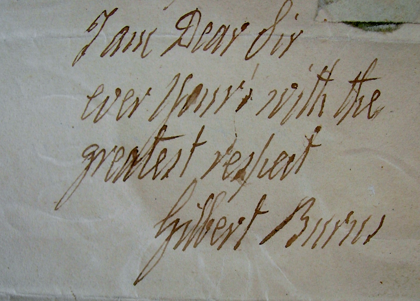 The signature of Gilbert Burns from an original manuscript letter dated 1815. Gilbert was the brother of Robert Burns.